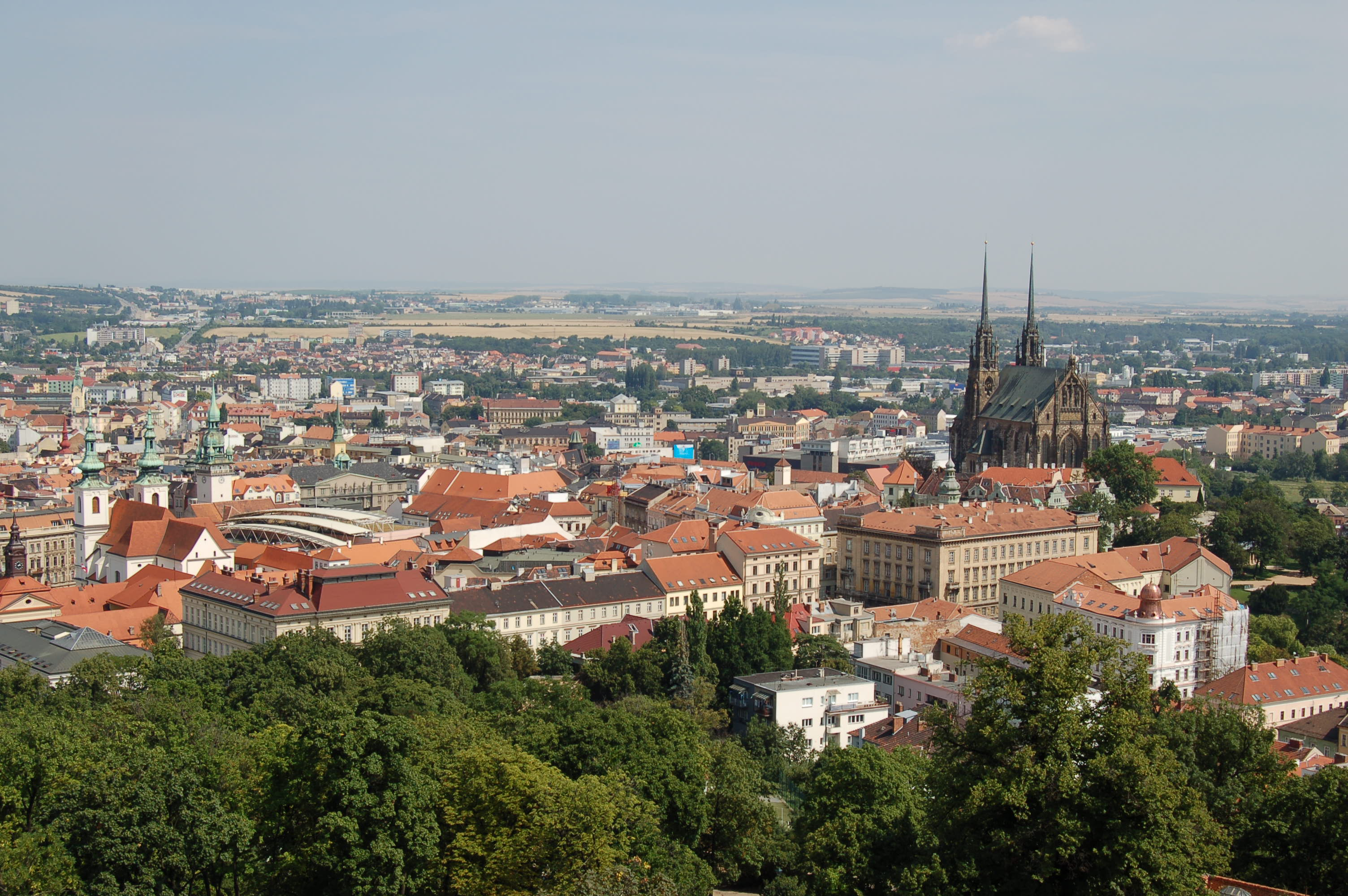 View of Brno from Spilberk Castle.